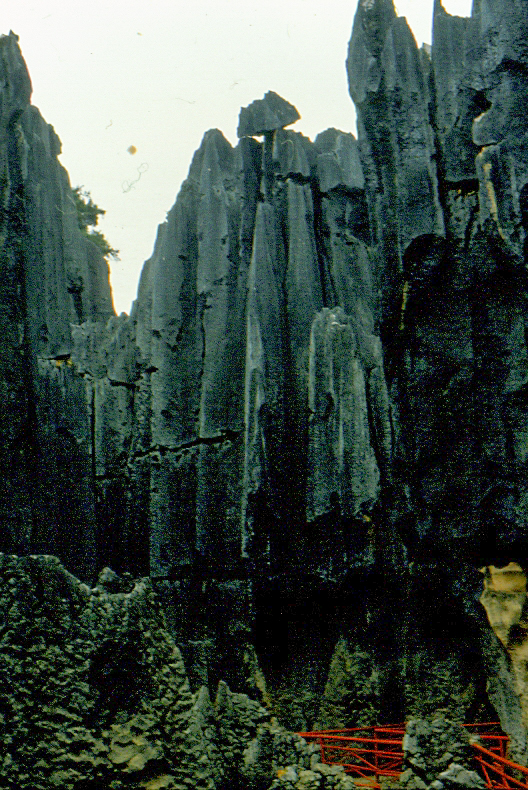 Shilin (Stone Forest)